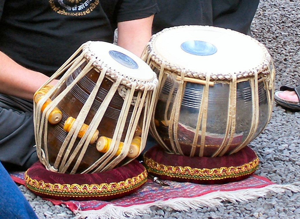 Tabla, a South Asian percussion instrument.